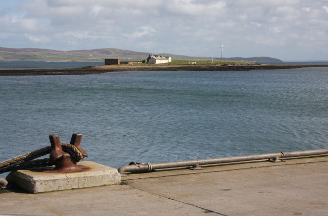 Inner Holm from end of the jetty Looking across Stromness Harbour towards the islet of Inner Holm, from the end of the jetty.